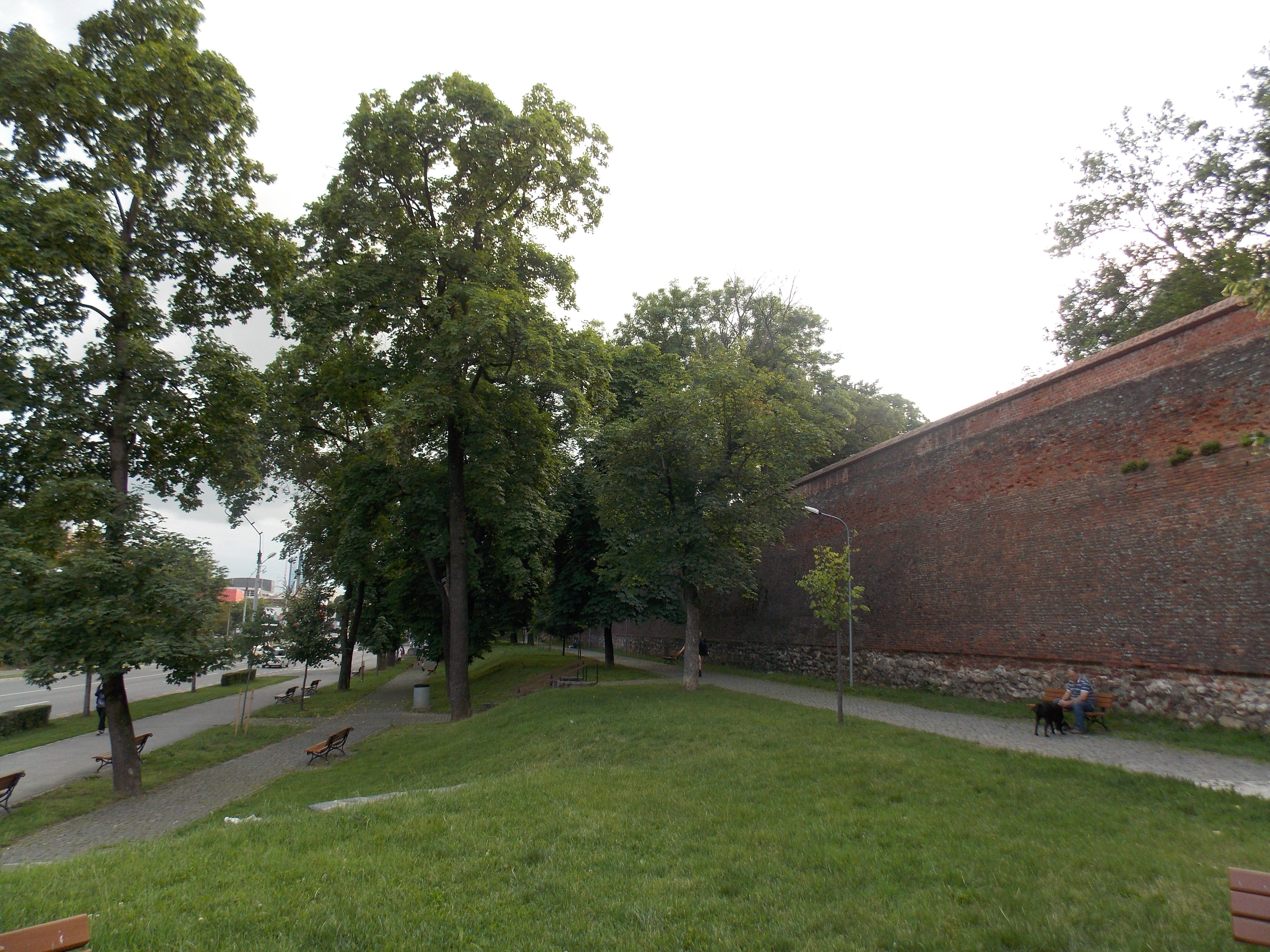 Parcul Cetatii (Citadel Park) with the old City wall